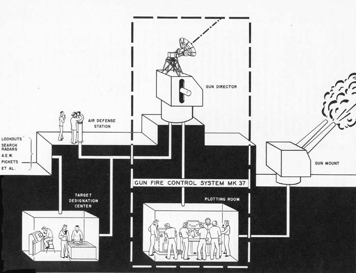 Frontispiece. Gun Fire Control System Mk 37 and Associated Stations